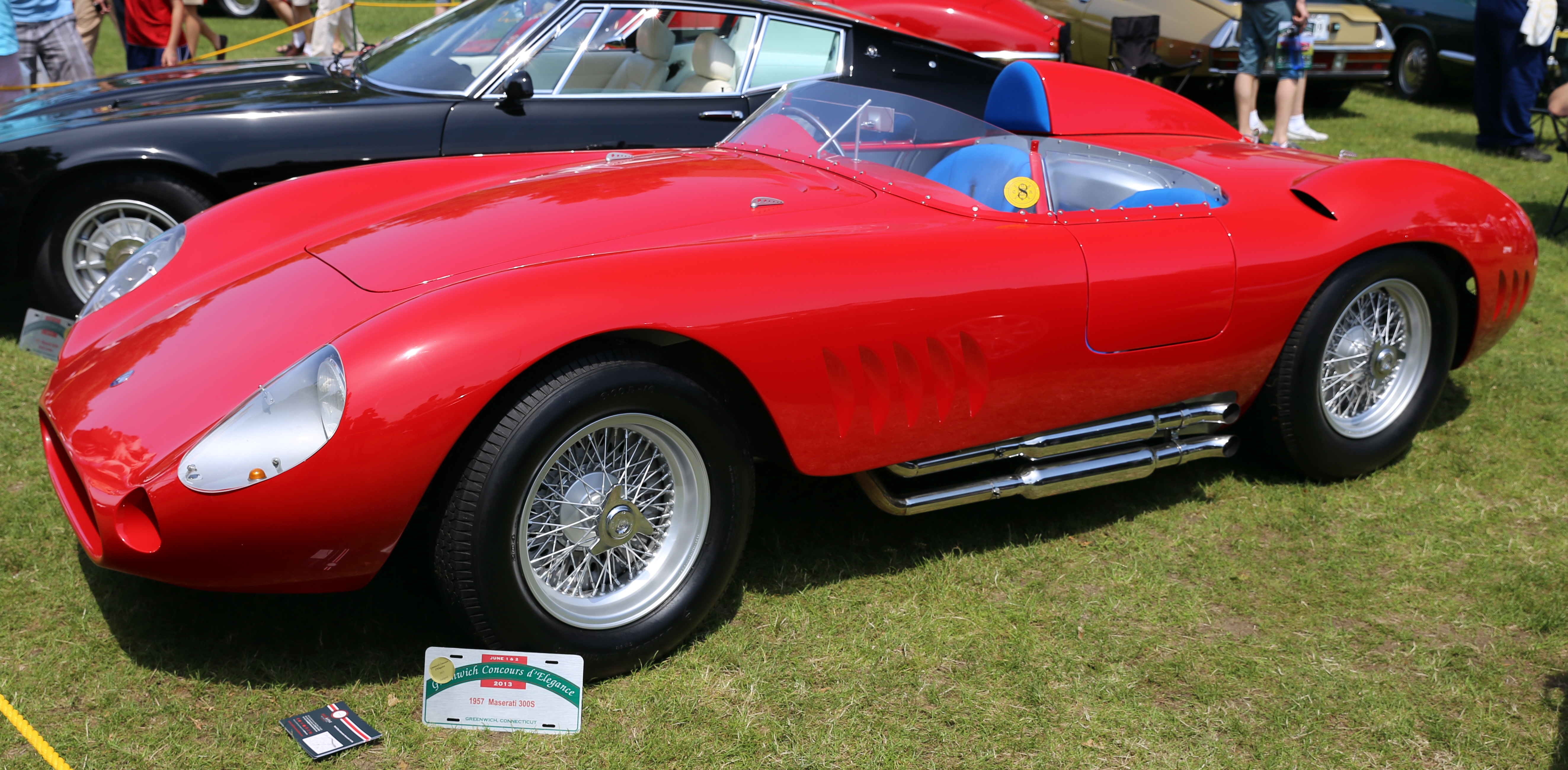 1957 Maserati 300S at the 2013 Greenwich Concours d'Elegance.